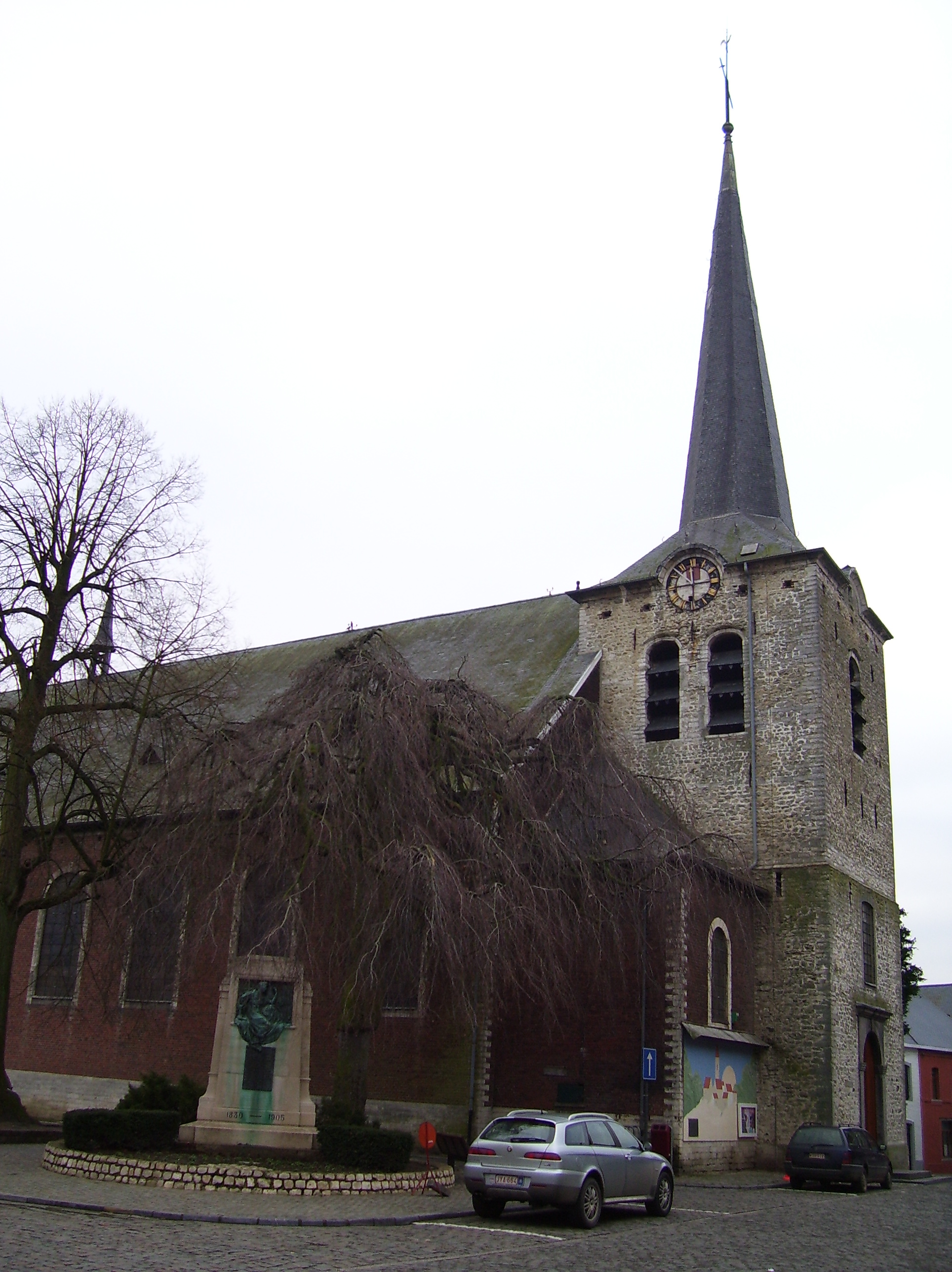 Saint Georges church of Grez-Doiceau, Belgium